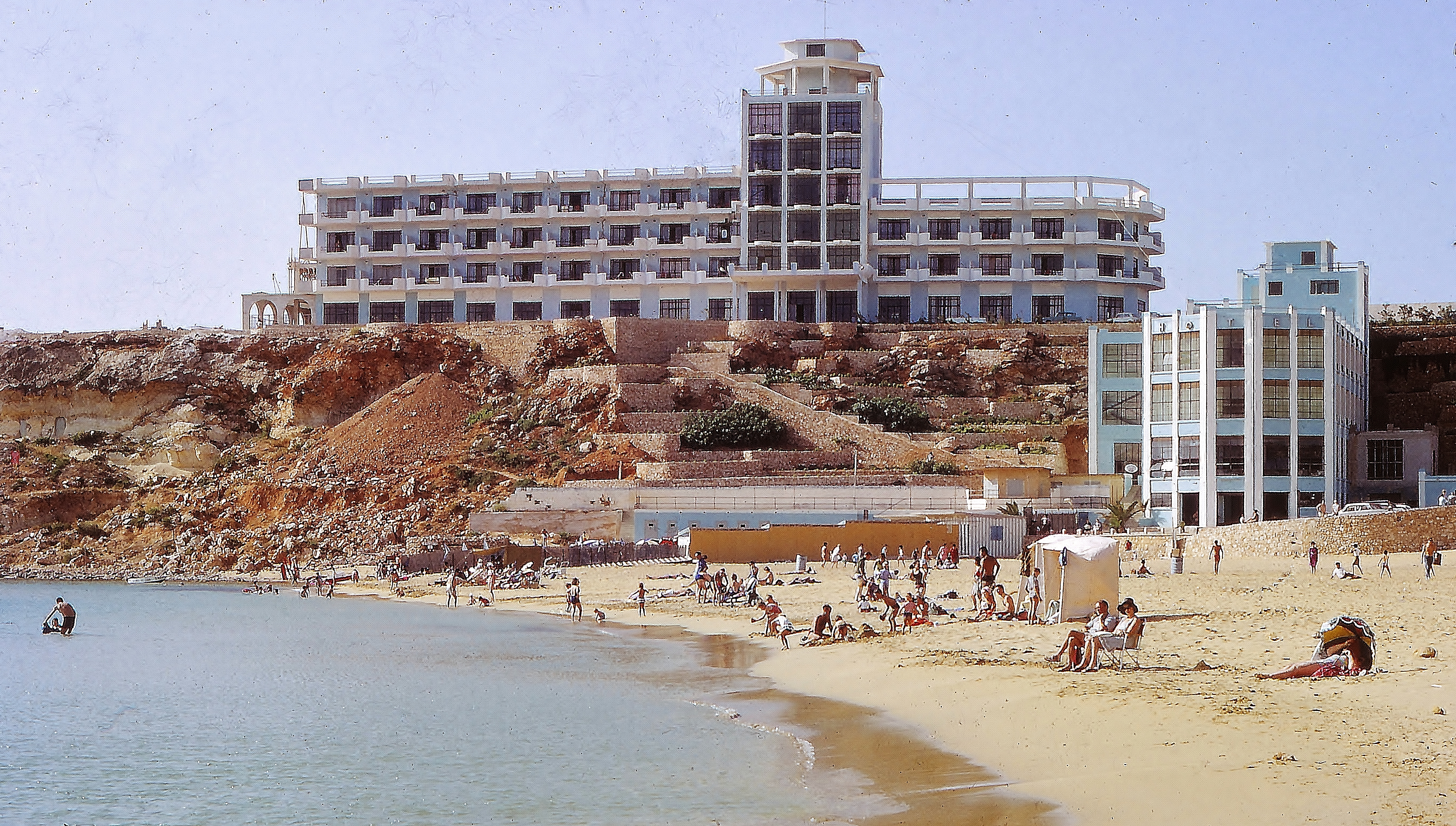 The Golden Sands Hotel, Mellieha. The initial stirrings of ' Package Holidays'.